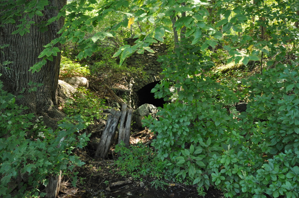 Davisville Historic District, North Kingstown, Rhode Island. Surviving elements of the historic mill.